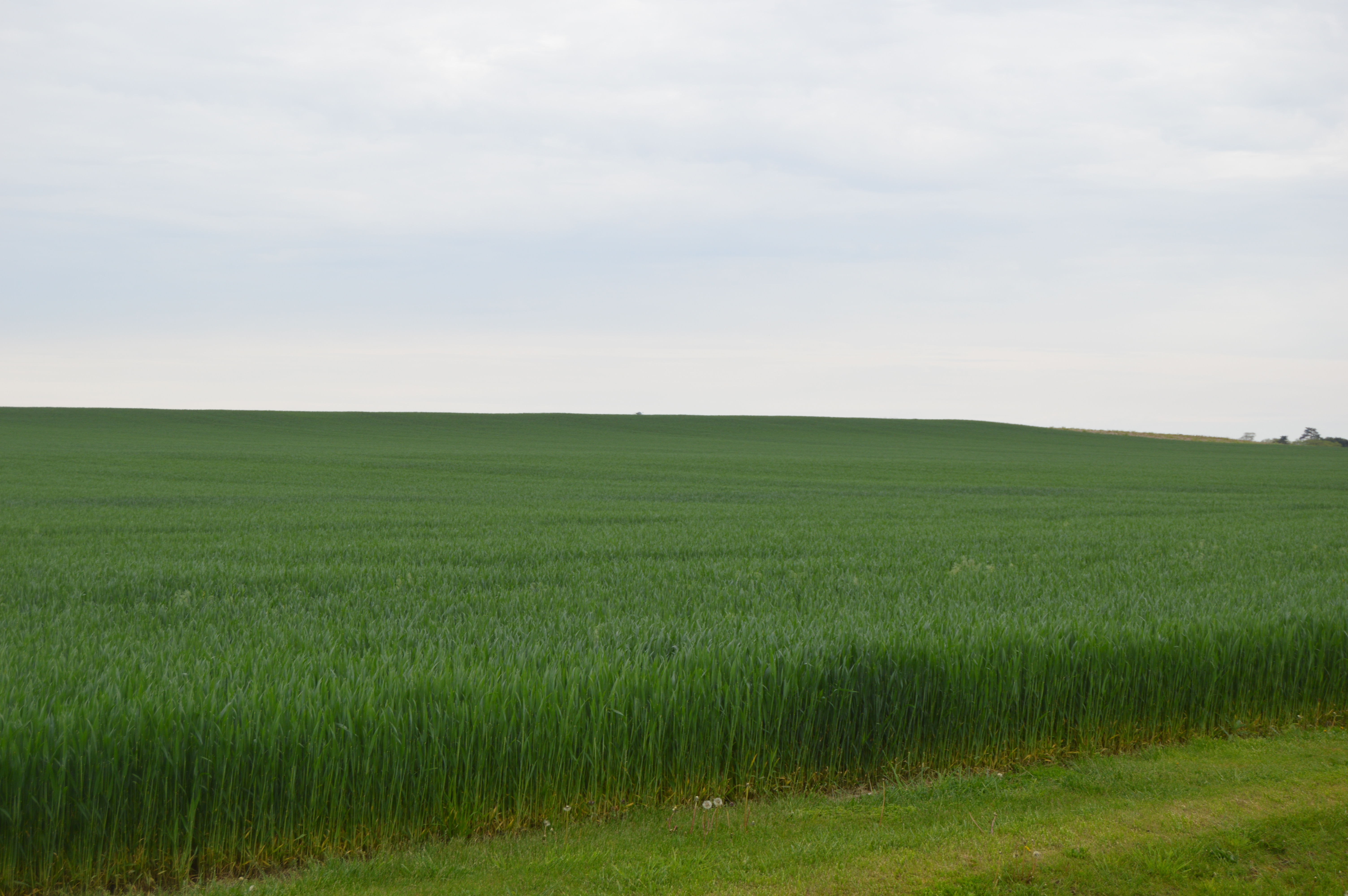 Wheat fields on the western side of Southwest Road, between Strecker and Portland Roads, in far northeastern York Township, Sandusky County, Ohio, United States.